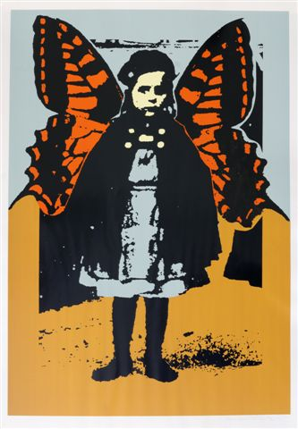 Girl-Butterfly, lithography by Berenika Ovčáčková